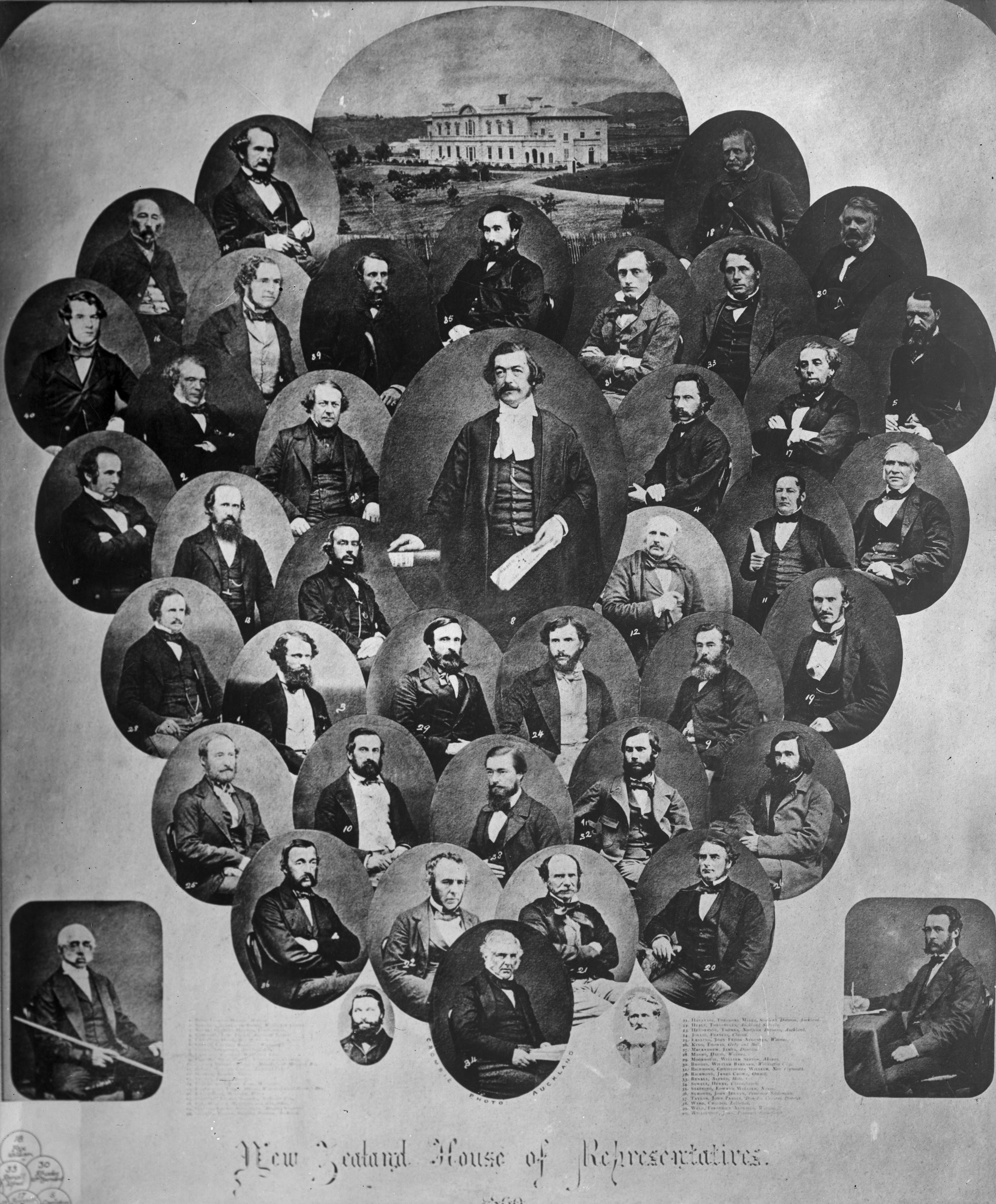 Montage of portraits created by John Nicol Crombie depicting members of the New Zealand House of Representatives, the Sergeant-at-Arms, and the Clerk of the House, during the Second Parliament, 1860. Government House, Auckland, is at the top. From left to right, bottom row: E Mayne (Sergeant at arms), H Sewell, F E Campbell(Clerk). 2nd row from bottom: J J Symonds, T Heale, T M Haultain, R Graham. 3rd row from bottom: J F Kelling, H E Curtis, C Ward, J C Richmond, T King. 4th row from bottom: D Monro, C H Brown, W S Moorhouse, F Jollie, I T Cookson, T B Gillies. 5th row from bottom: T H Fitzgerald, J Farmer, F D Bell, C Clifford (Speaker), A Domett, W C Daldy, A Clark. 6th row from bottom: J Williamson, A de Bathe Brandon, T Henderson, J L Campbell, T S Forsaith, H Carleton. 7th row from bottom: W Fitzherbert, C R Carter, F A Weld, E Stafford (Premier), C W Richmond, A Renall, W B Rhodes. Left of Government House: I E Featherston. Right of Government House: W Fox. A key to this montage is also on Commons.